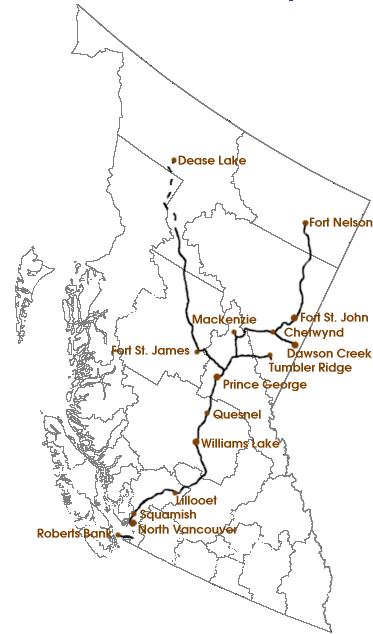 Map of BC Rail. Background from :Image:Bcmap.PNG, which is PD. Routes based on Lines of Country, Philip's Concise World Atlas, and CN's website. Copyright © 2005, James Yolkowski (User:JYolkowski).